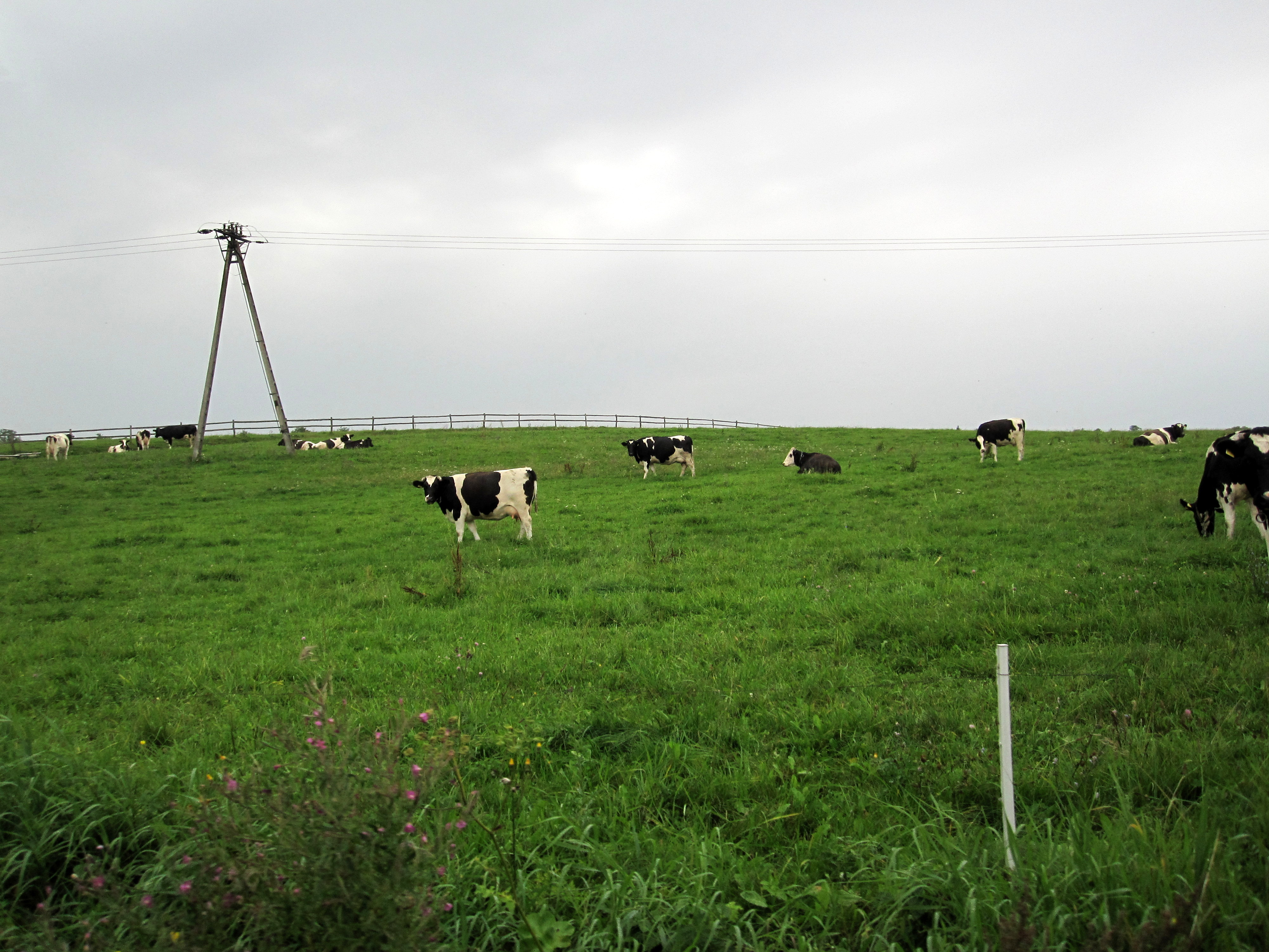 Pistki, Ełk county